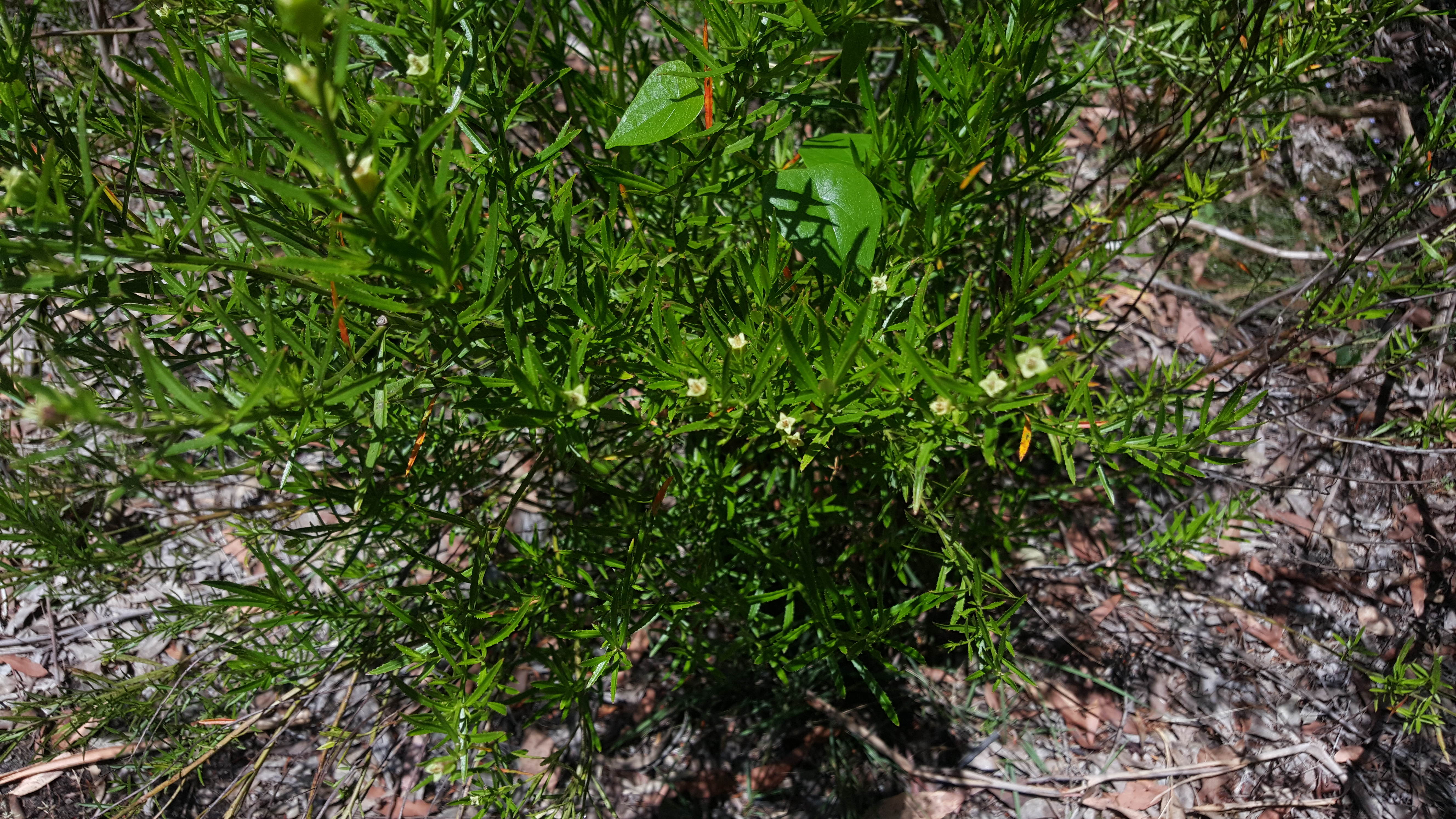 Haloragodendron lucasii, cultivated Sylvan Grove Native Garden, Picnic Point, NSW